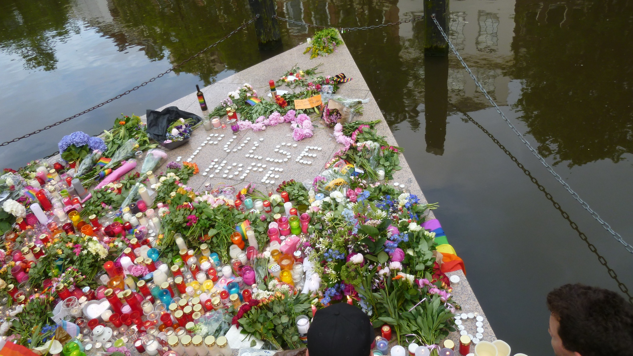 Homomonument, Amsterdam, tribute to victims of Pulse nightclub shooting, June 2016.